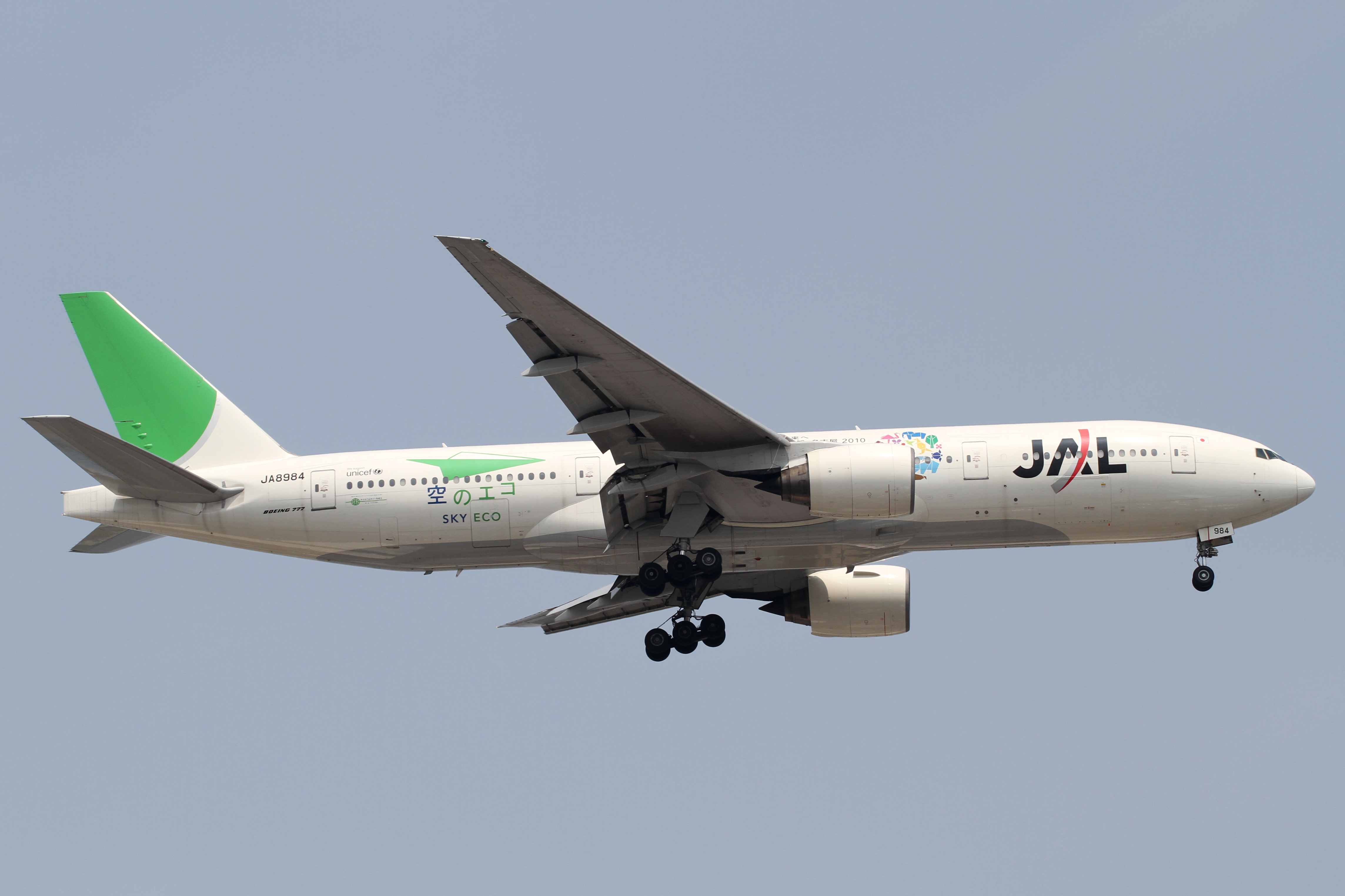 Tokyo International Airport, Boeing B777-246, c/n:27651, "Sky Eco" and "COP10" s/c, Japan Airlines